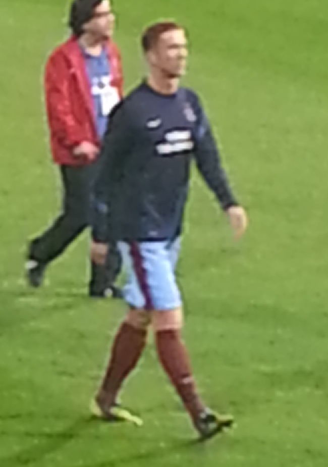 Janko @ BJK match